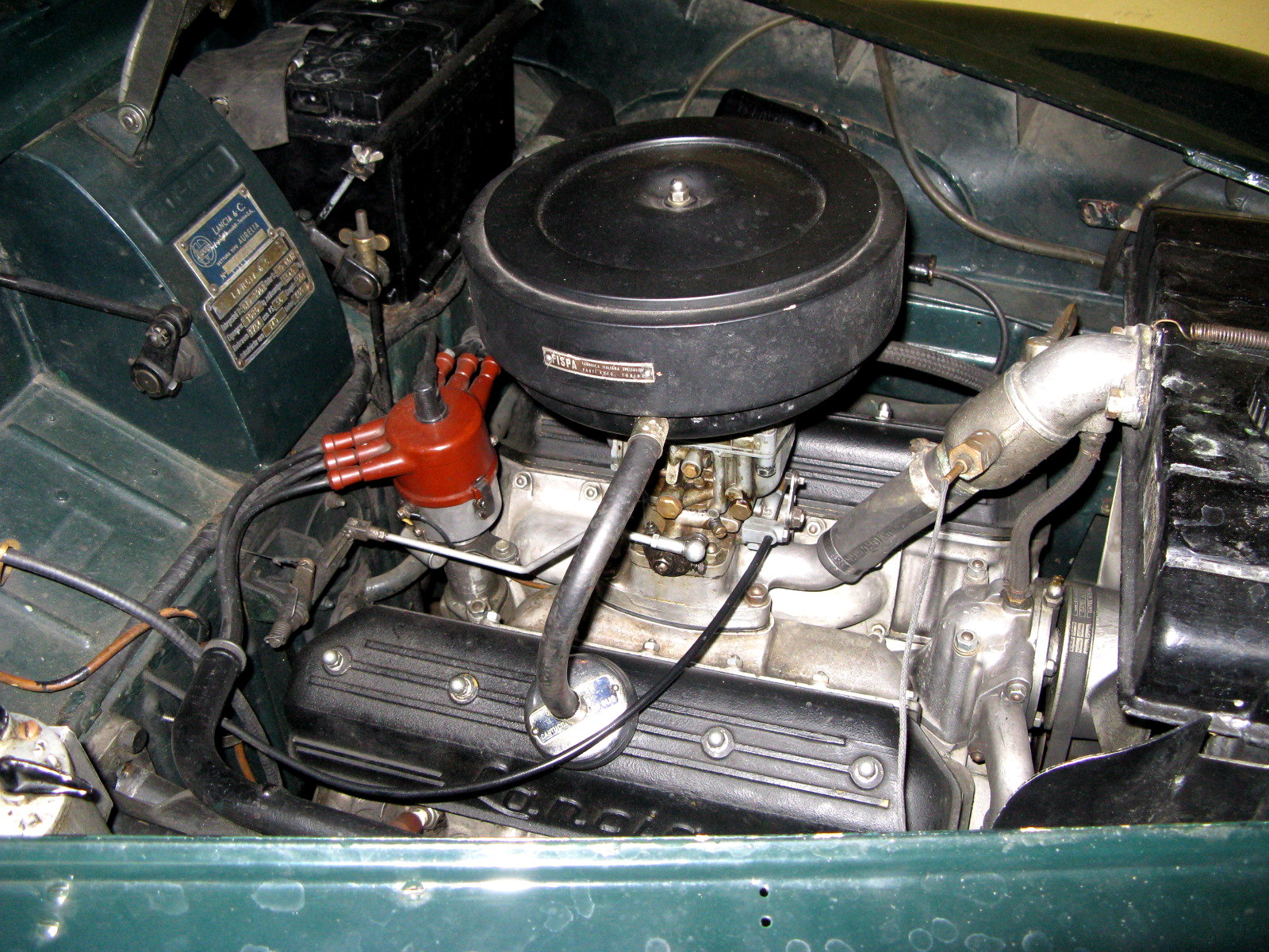 1951 Lancia Aurelia B10 (engine: 2.2 l V6)